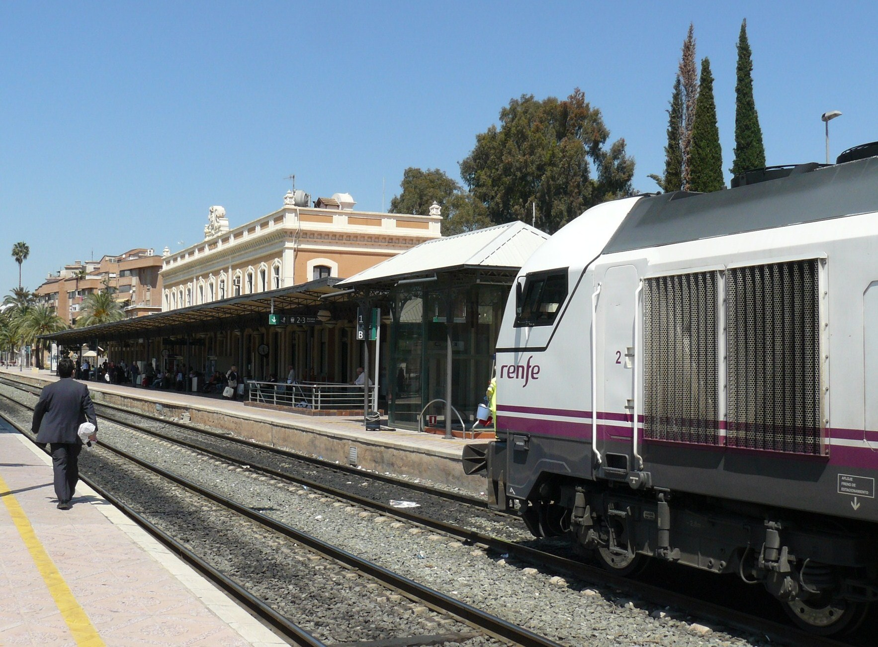 Train Station Murcia del Carmen, Spain, RENFE.